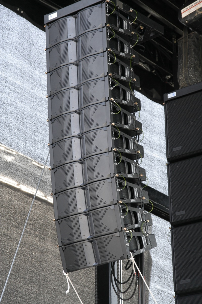 Proel Axiom AX2265P 2-way full-range vertical array element bi-amp